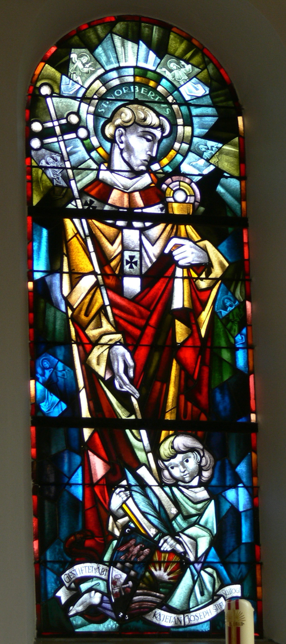 Klaffer am Hochficht ( Upper Austria ). Mary Assumption parish church ( 1955 ) - Stained glass windows ( 1954 ) of Saint Norbert by Lucie Jirgal.